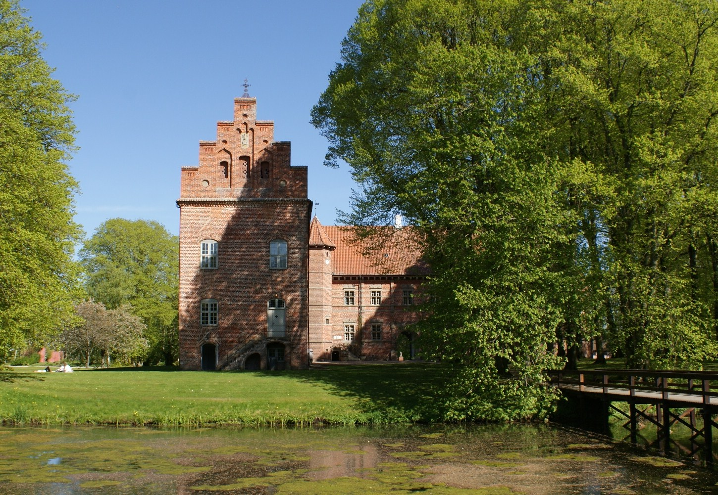 Voergaard Castle